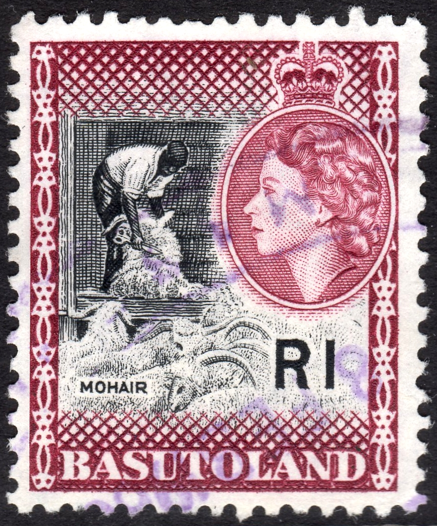 1963 R1 stamp of Basutoland based on 1954 original design.